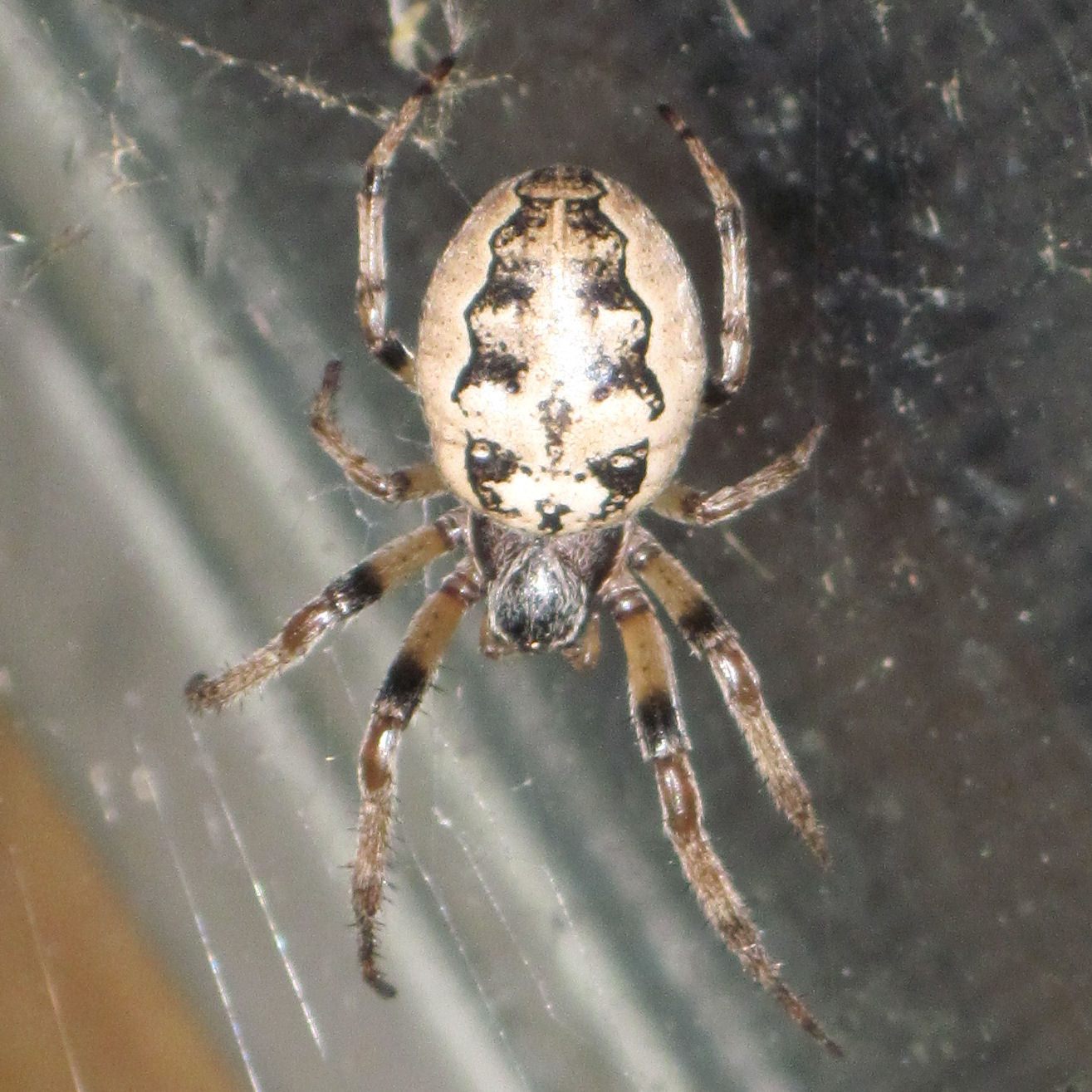 Larinioides cornutus (female) - Southwest Michigan 9-29-2011